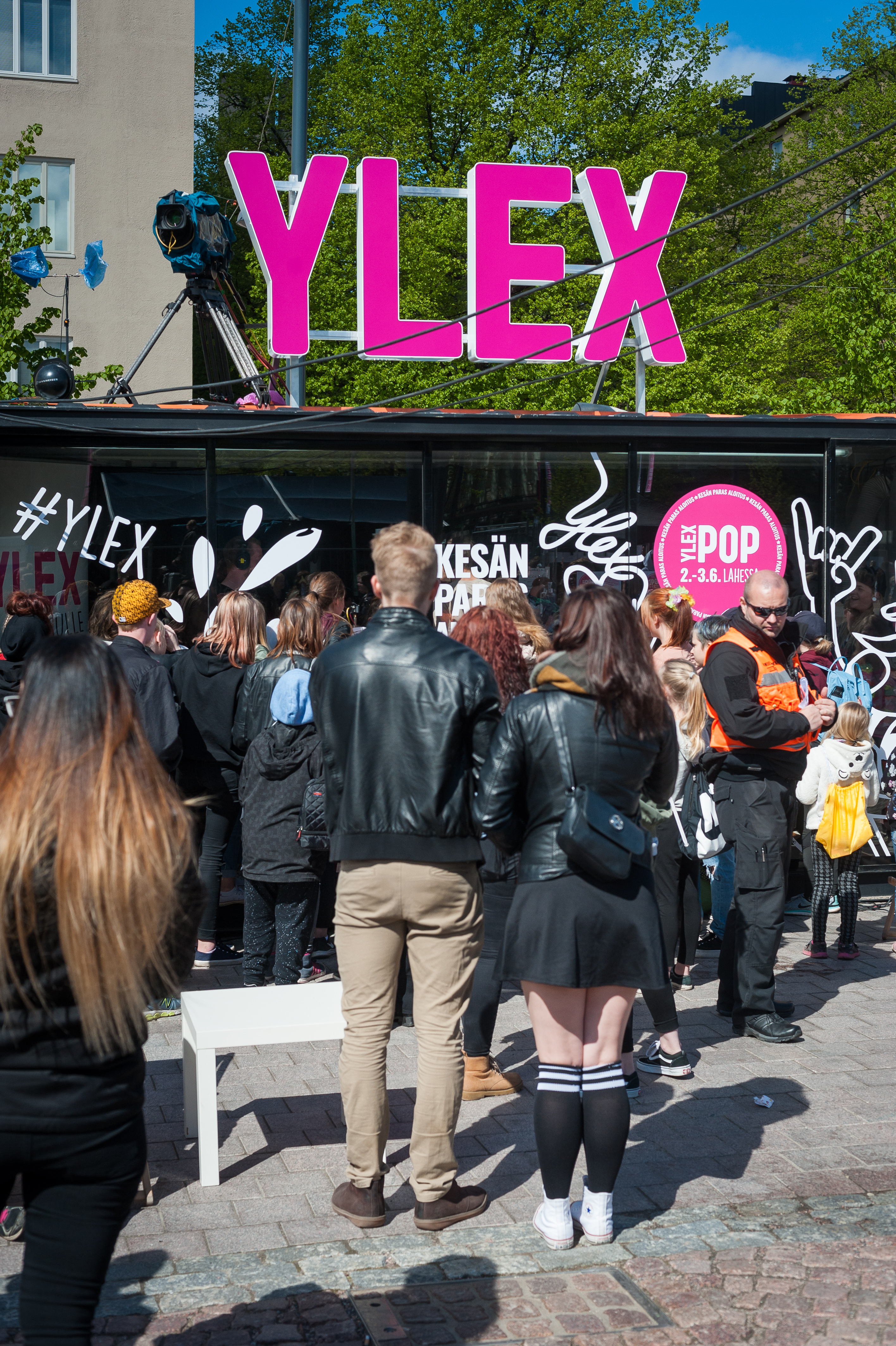 People in front of YleX broadcasting shipping container at the 2017 YleXPop festival in Lahti, Finland.